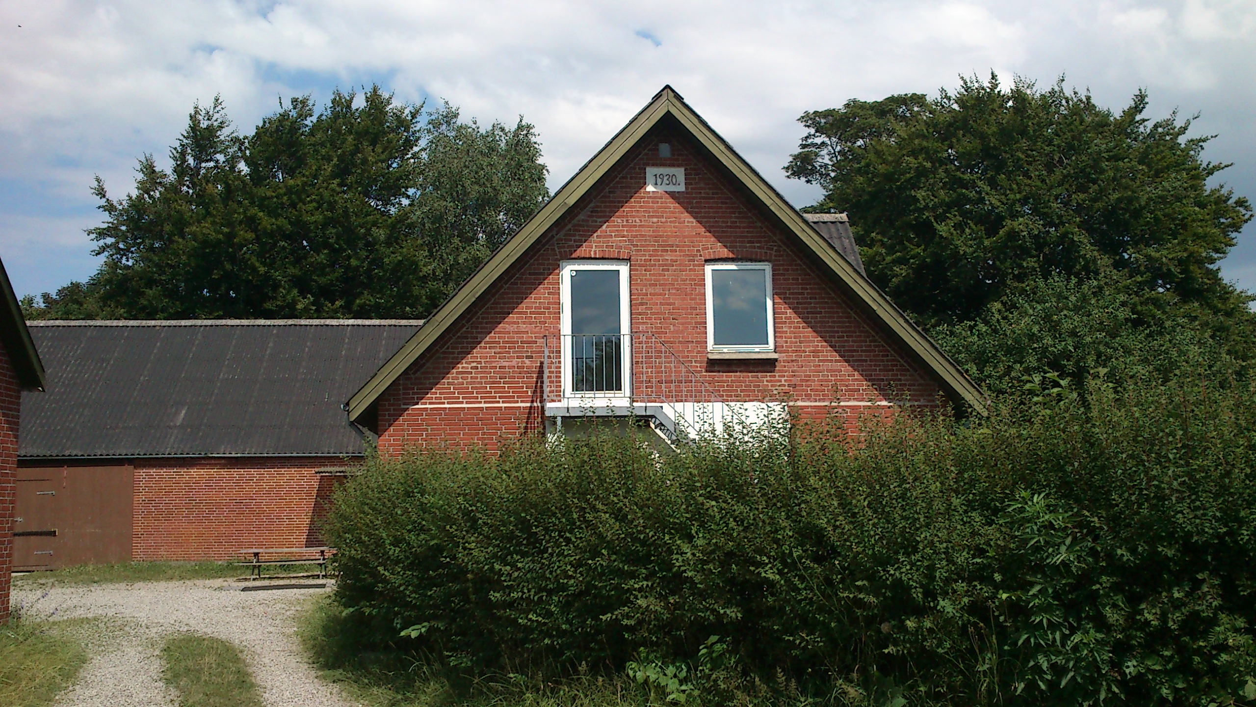 Himmeriggården